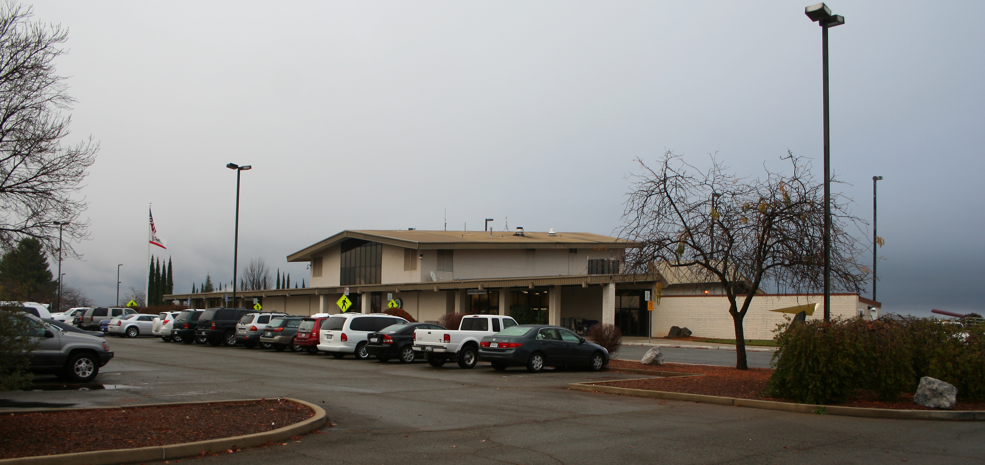 The Redding, California airport terminal in 2008